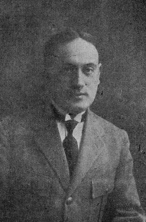 Emmanouil Emmanouil (1886-1972): Greek scientist and university professor